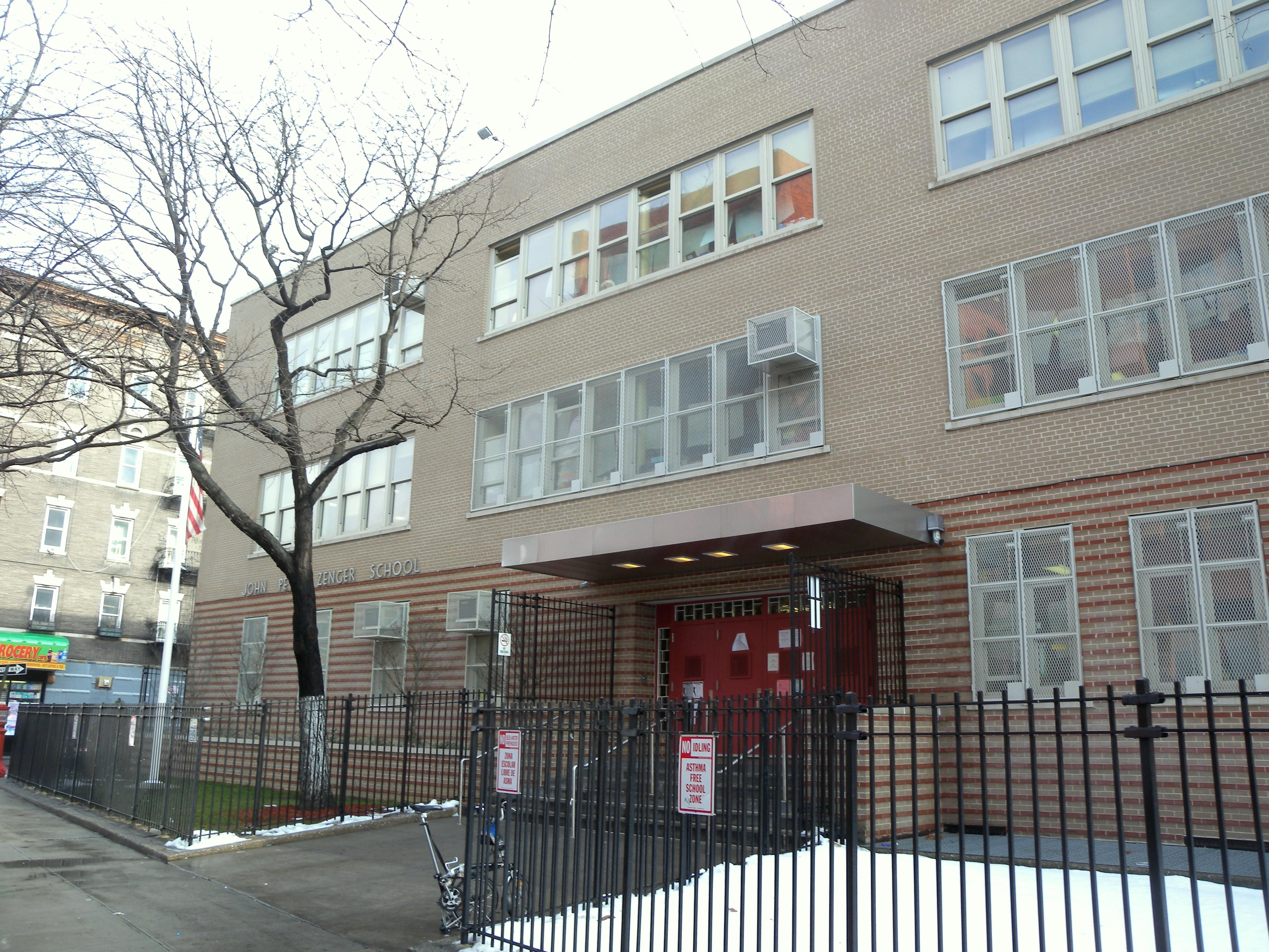 Looking northeast at JP Zenger School, PS 18 and 147th beyond, from Morris Avenue sidewalk on a rainy midday.